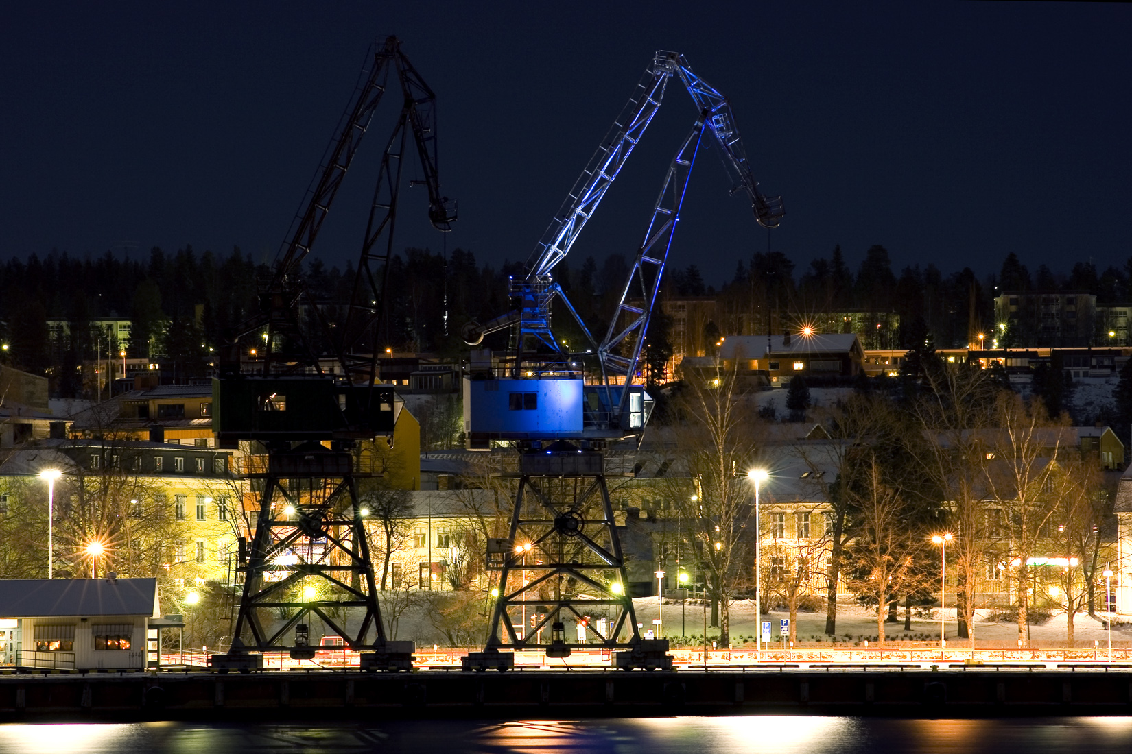 Harbor cranes in Örnsköldsvik by night.